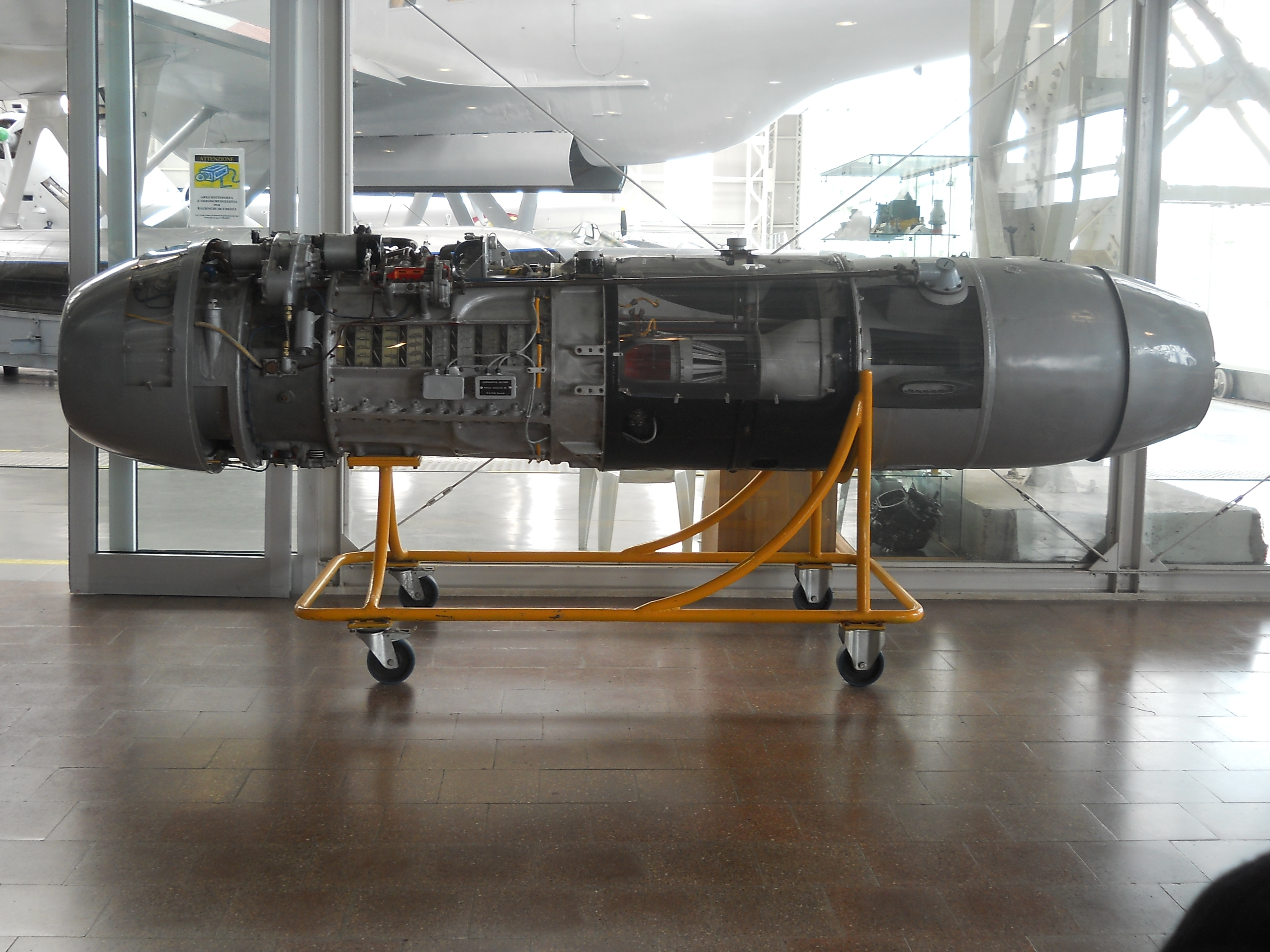 The Junkers Jumo 004 jet engine displayed at the Italian Air Force Museum